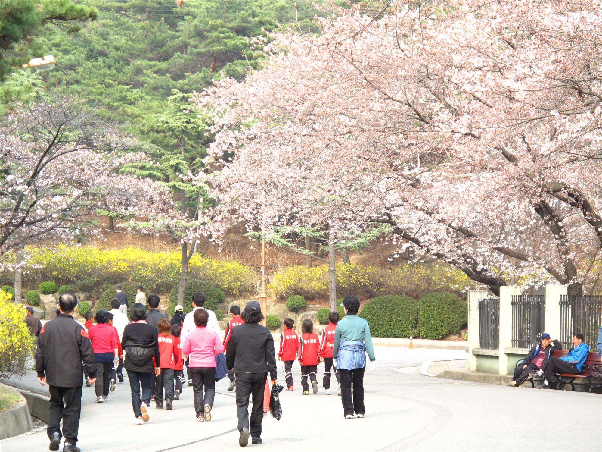 Spring cherry blossoms in Duryu Park, Daegu, South Korea